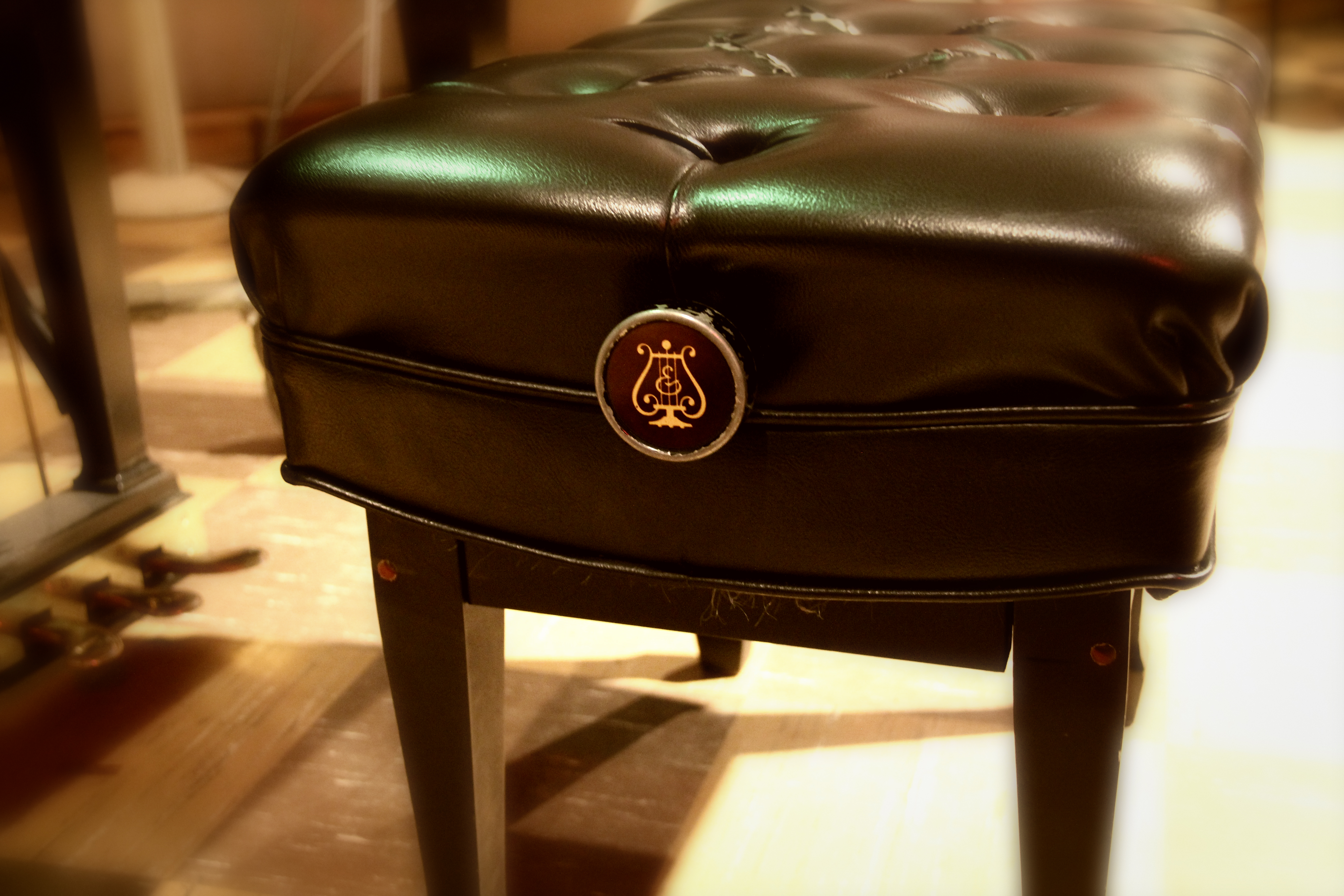 Steinway & Sons Grand Piano Stool logo, RCA Studio B